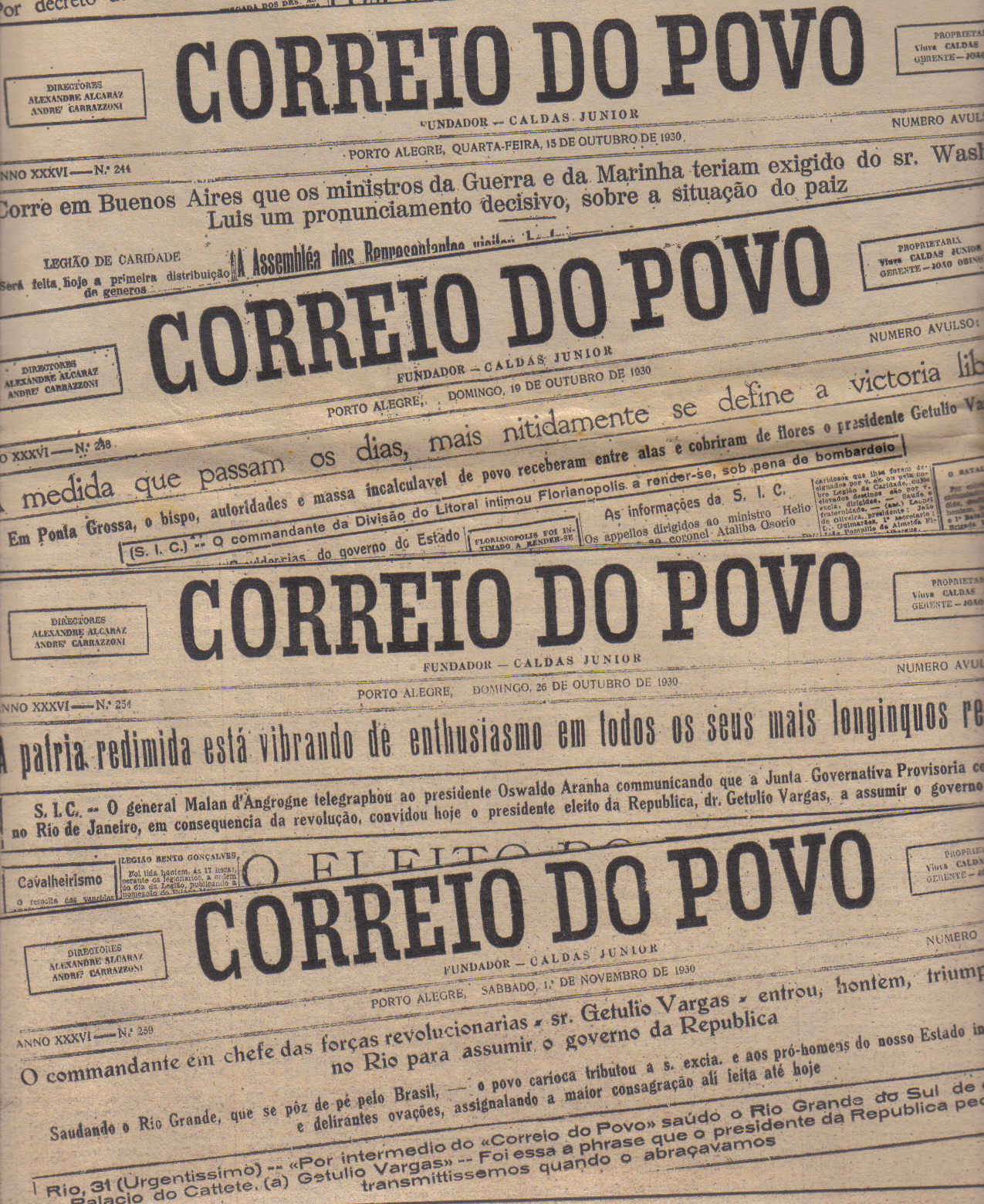 Art upon data obtained through Brazilian Government agencies, author, the uploader